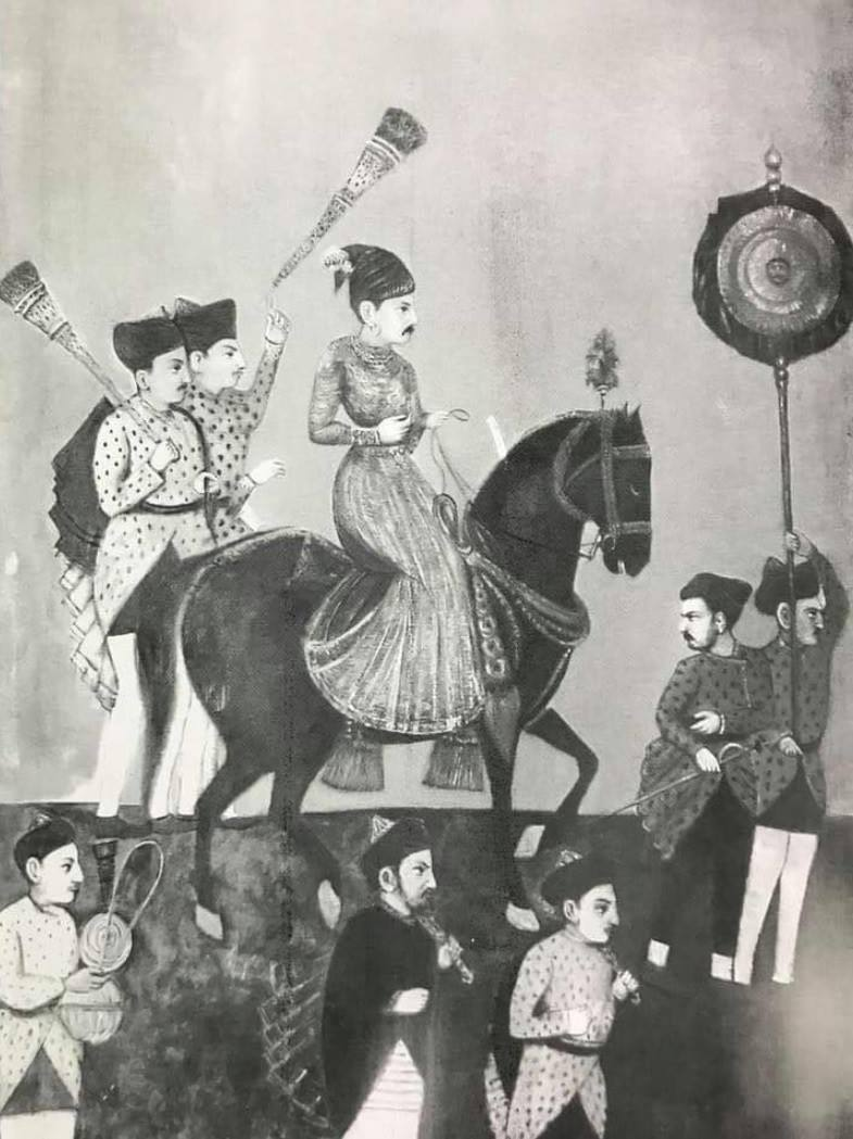 Chhatrapati Rajaram